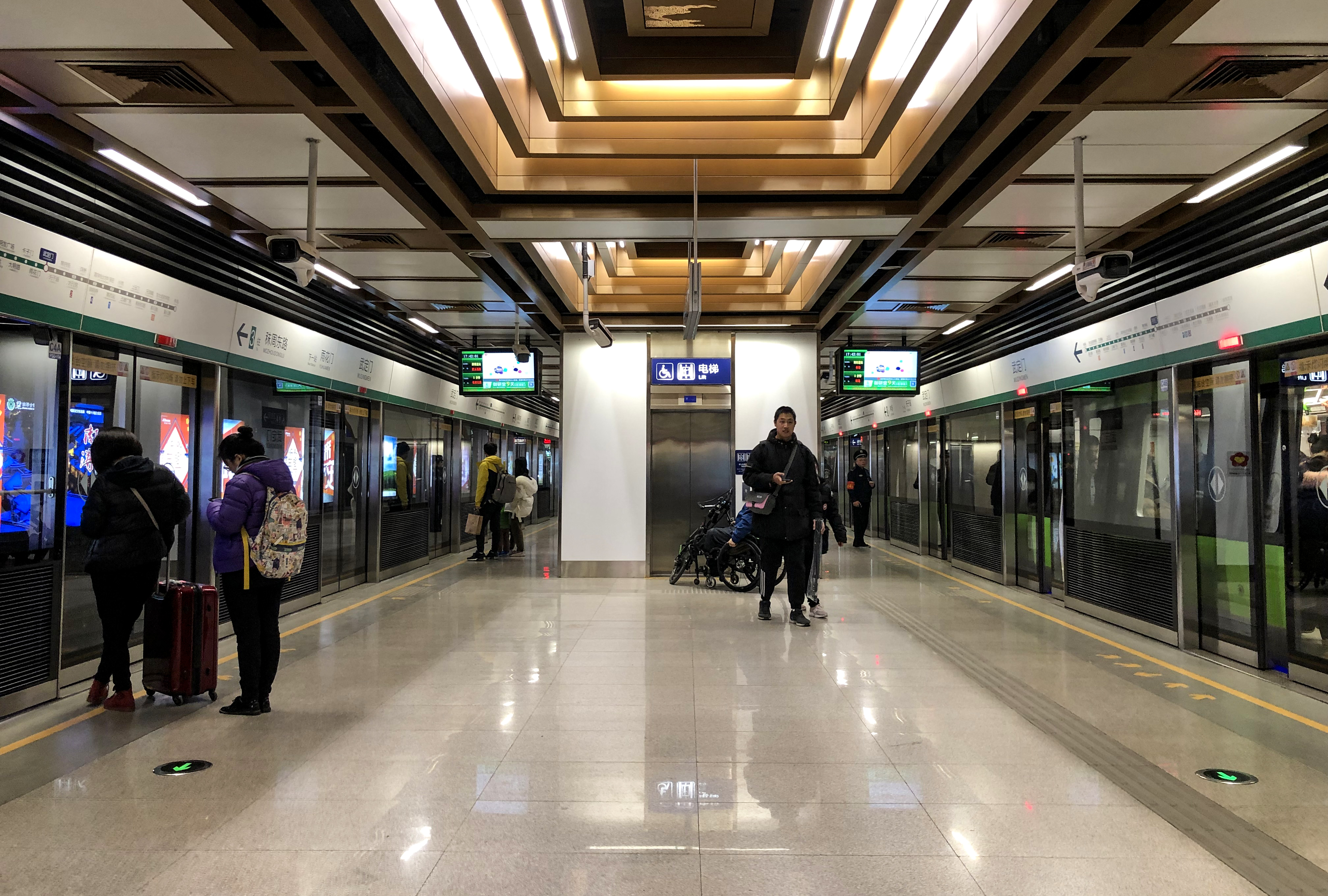 There's even decorations on the ceiling.